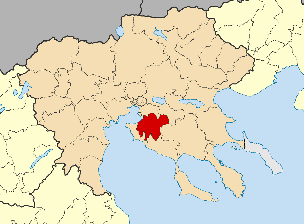 Locator map for Thermi municipality in Greek region Central Macedonia (2011)